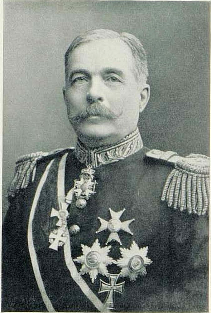 Axel Fredrik von Matern (1848-1920), Swedish general